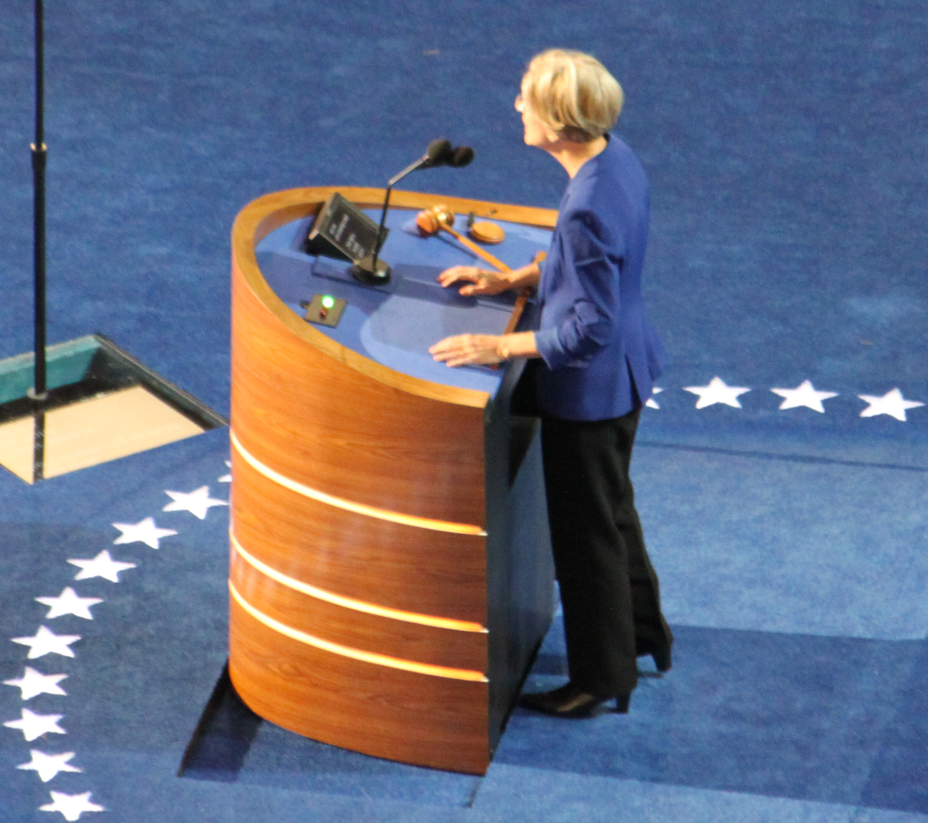 2012 Democratic National Convention: Day 2